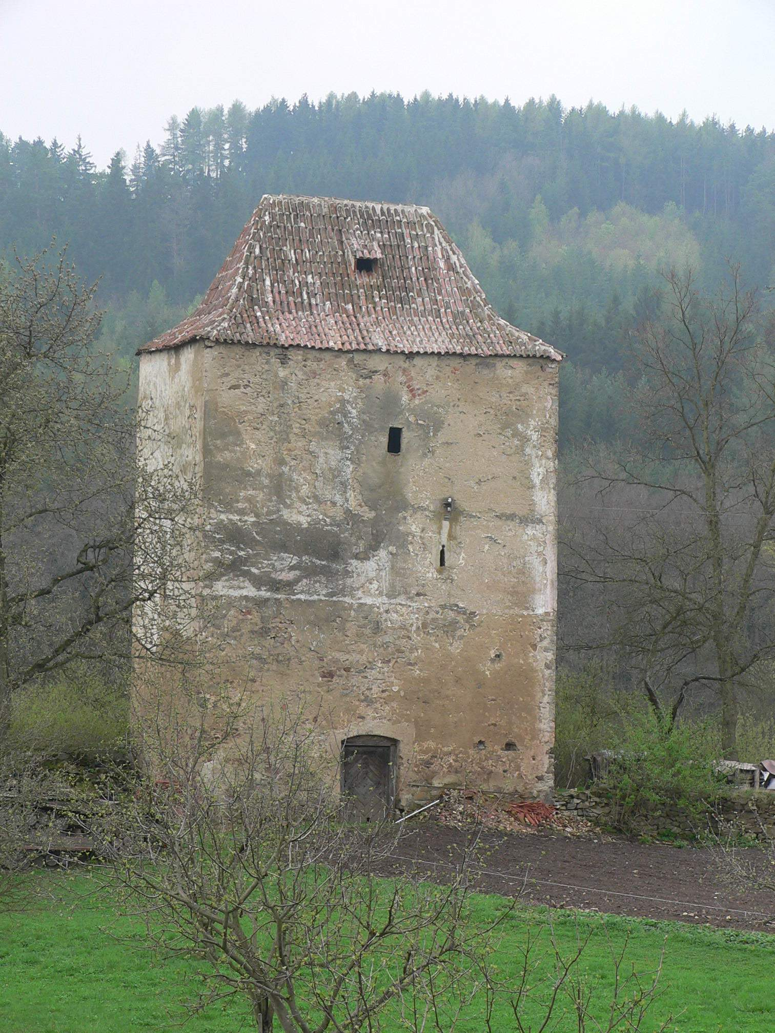 Stronghold in Doubravice u Volyně, Strakonice District, Czech Republic